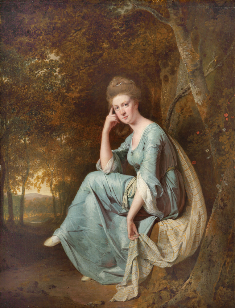 Oil painting on canvas, Ellen (Helen) Goodwin, Mrs Henry Case-Morewood (1740/41-1823) by Joseph Wright of Derby, ARA, (Derby 1734 - Derby 1797), signed and dated: I. W. P. 82 [1782]. A full-length portrait of a woman, turned to the left gazing at the spectator, seated on the stump of a tree in a woodland setting, her left leg crossed over her right, her right elbow resting on her knee. A gap in the trees on the left, reveals a distant hill. She married Henry Case, bachelor rector of Ladbroke, Warwickshire in 1793, having been the wife of George Morewood of Alfreton Hall, Derbyshire (d.1792). He took the name of Morewood but predeceased her without children. She left the house and its contents to her sister's children, the Palmers, who also assumed the name of Morewood.